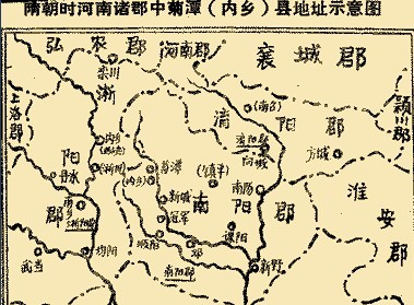 neixiang